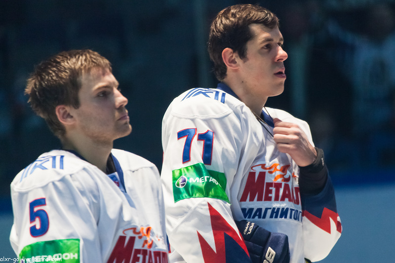 HC Metallurg Magnitogorsk forward Evgeni Malkin and defenceman Ilya Antonovsky listen to the anthem before Amur Khabarovsk — Metallurg Magnitogorsk KHL-game on October 8, 2012.